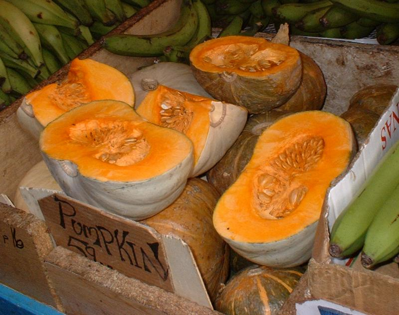 Pumpkins, Brixton market. Taken by C Ford, March 04.